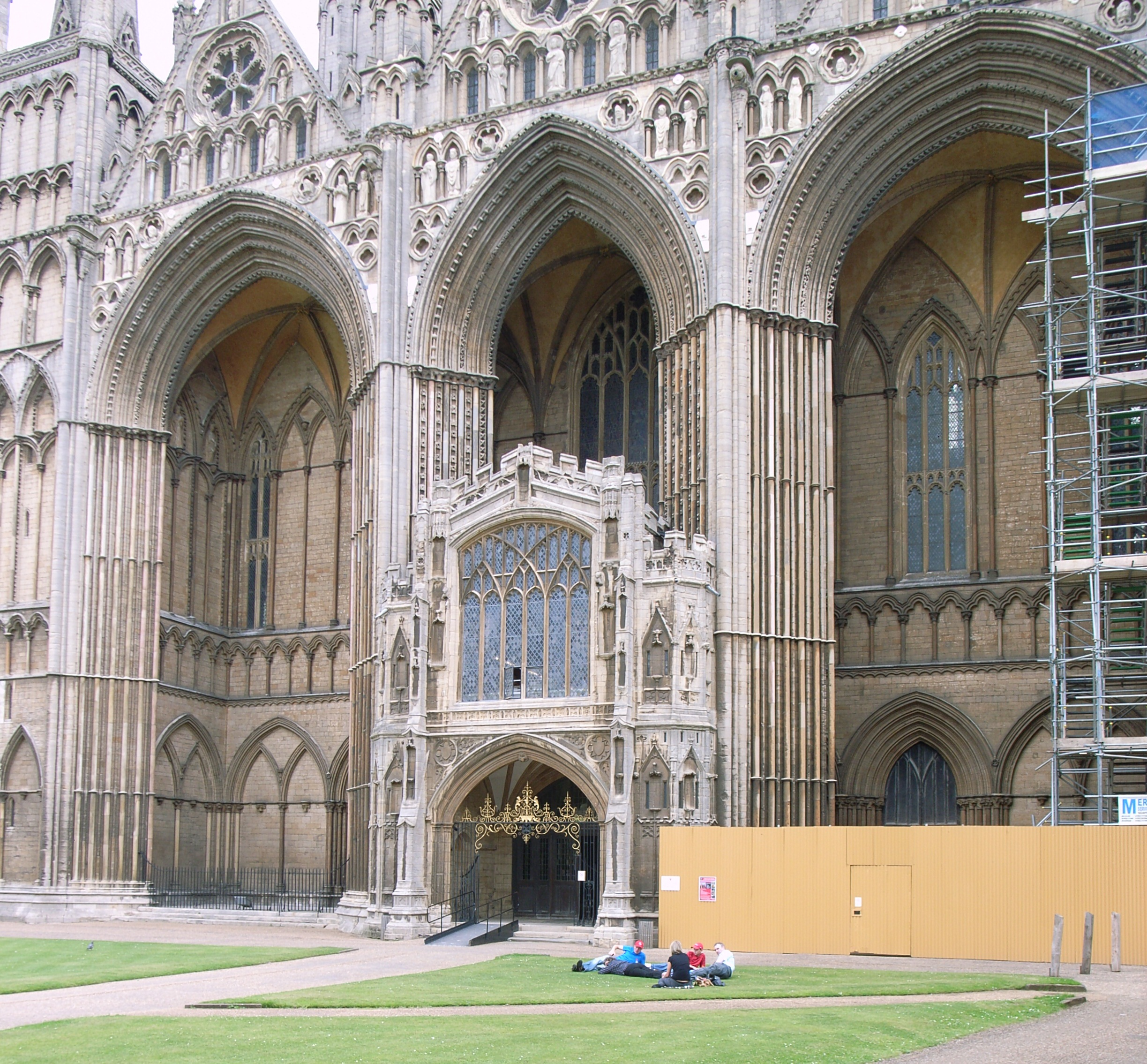 Peterborough Cathedral - West Front